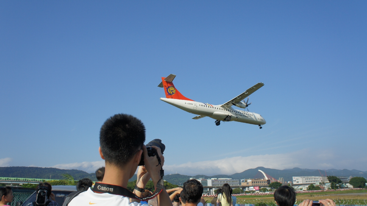 TransAsia Airways ATR72 Approach In RCSS